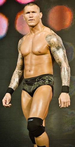 Randy Orton at WWE's Tribute to the Troops show in Fort Hood, Texas, on December 11, 2010.